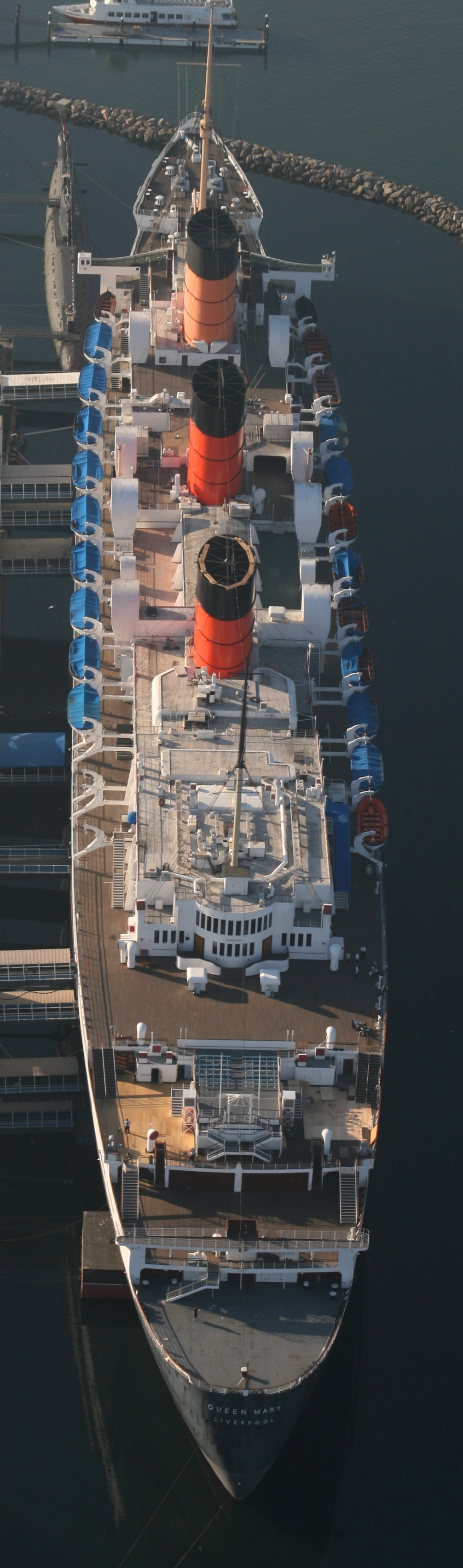 Or the other way around. Queen Mary.